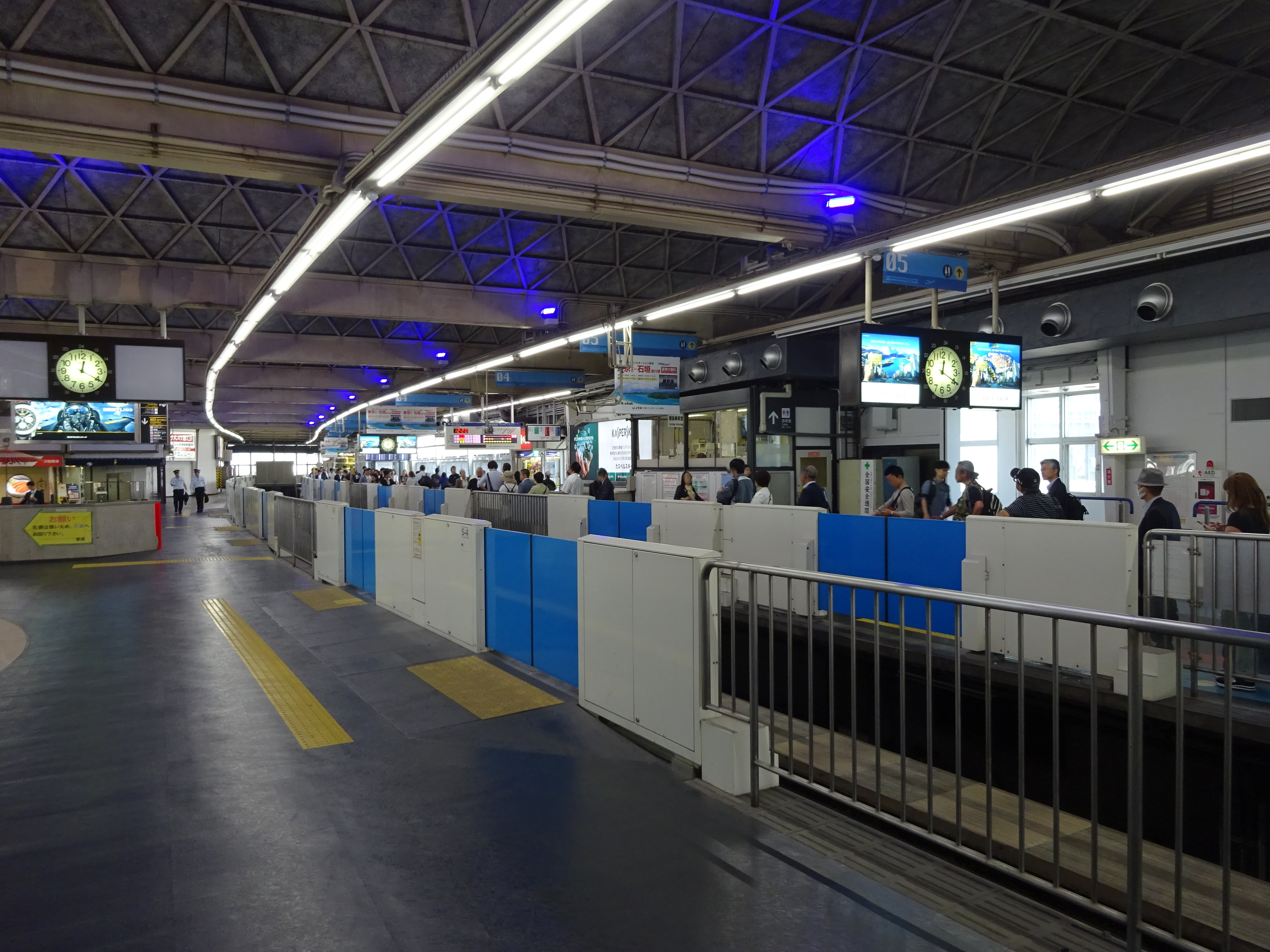 Platforms of Hamamatsuchō Station(Tokyo Monorail)